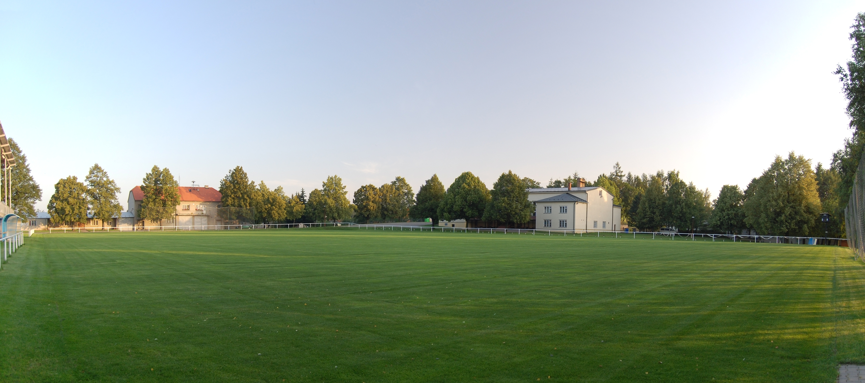 Football field in Lipová, Prostějov district, Czech Republic